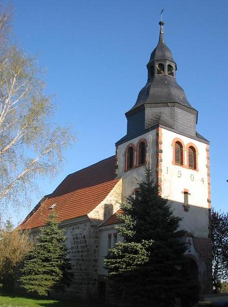 Stonechurch of St. Peter's in Senst. First reference in 1275, Rebuilding in baroque in 1744, spire from 1904. Senst is a municipality in the Nature park Fläming in the district Wittenberg, state Saxony-Anhalt, Germany.